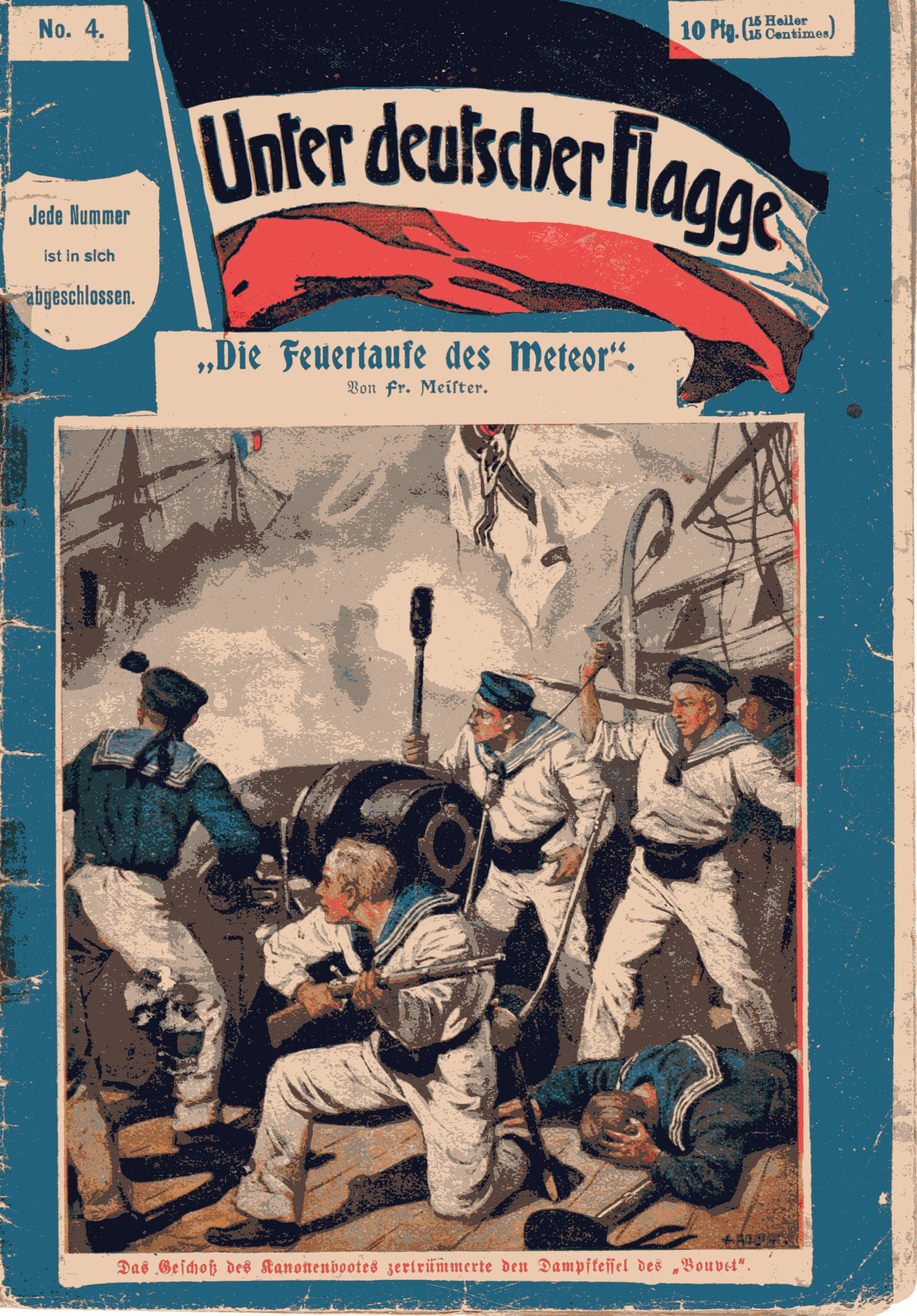 The cover shows the fight between the Northgerman gunboat SMS METEOR and the French Aviso BOUVET outside Havana harbour 1870